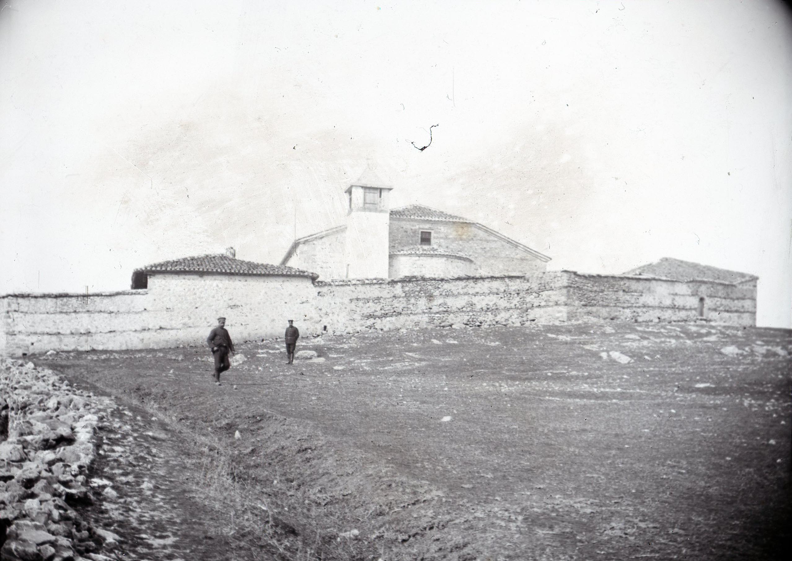 St. George Monastery, Kukush. Bogdan Filov's archive.